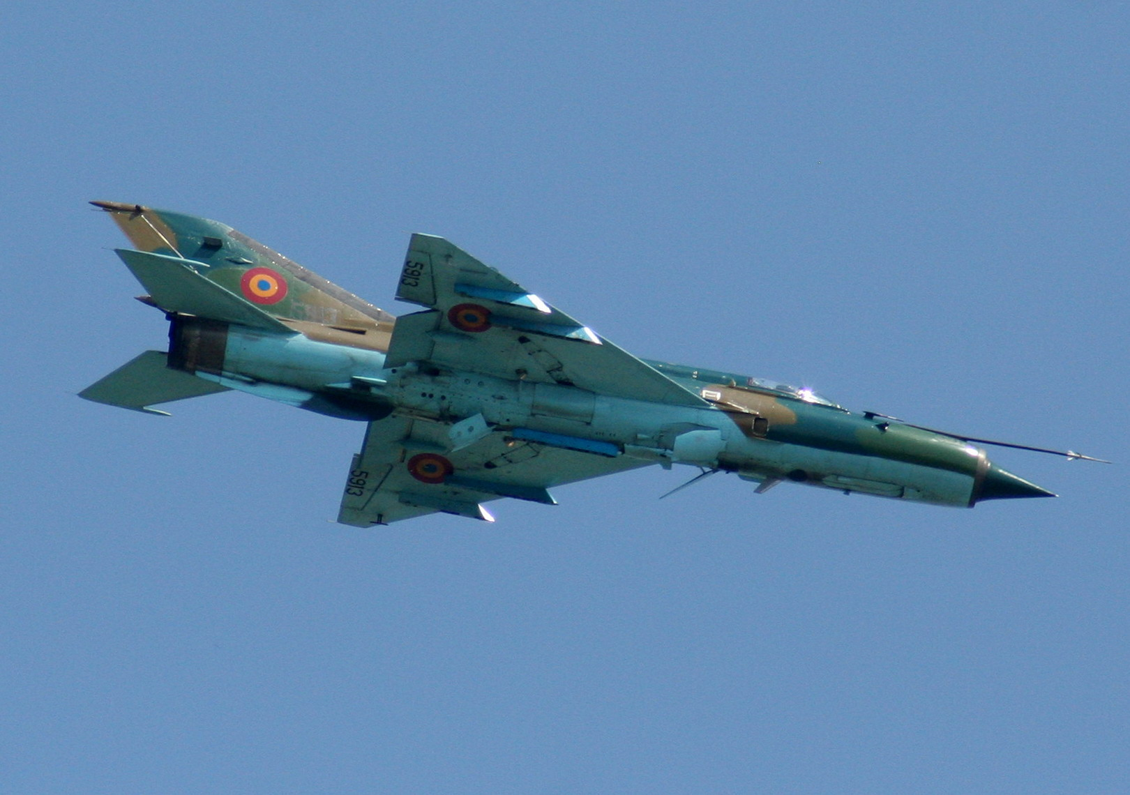 Acrobatics with MiG-21 LanceR, air-to-ground type, at AIR SHOW 2010